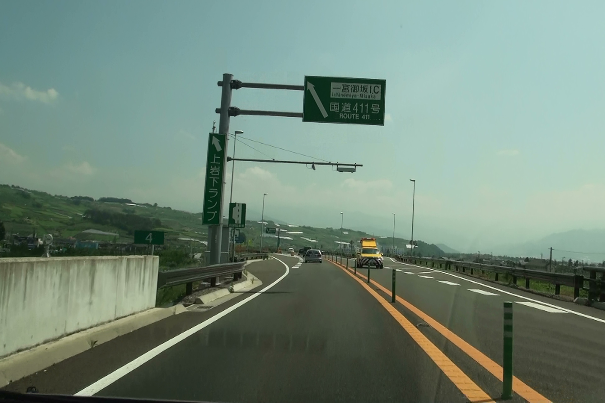 Kofu-Yamanashi road Kamiiwashita-ramp